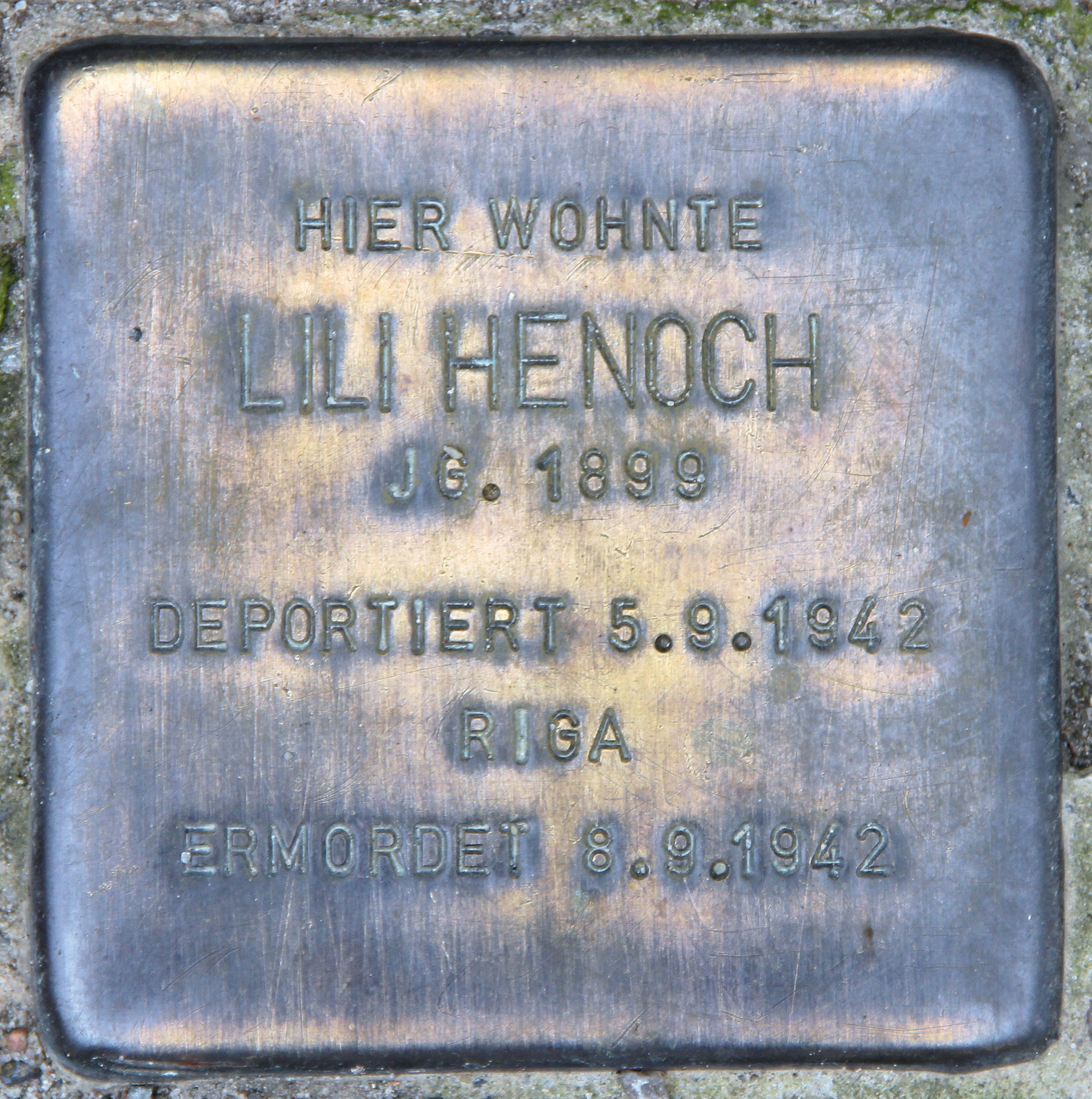 "Stolperstein" (stumbling block), Lilli Henoch, Treuchtlinger Straße 5, Berlin-Schöneberg, Germany Koordinate:52°29′30″N 13°20′18″E / 52.49167°N 13.33833°E